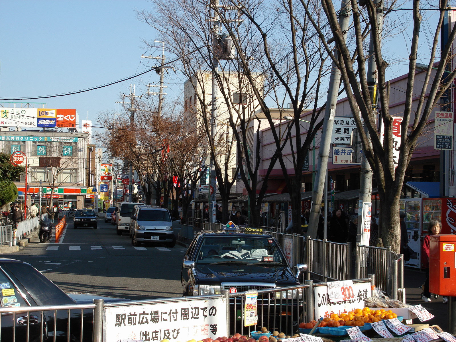 Street which have stores